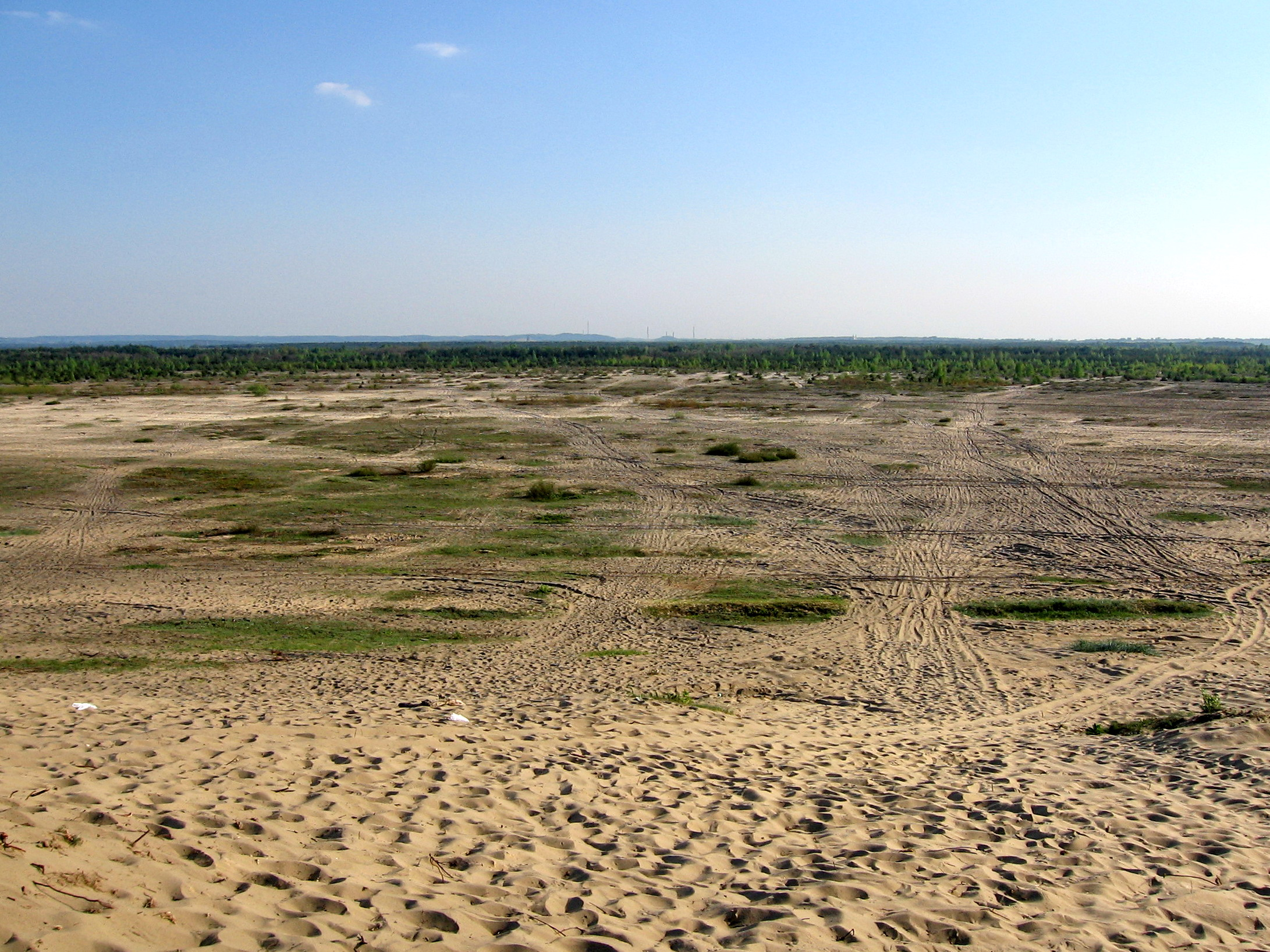 Błędowska Desert